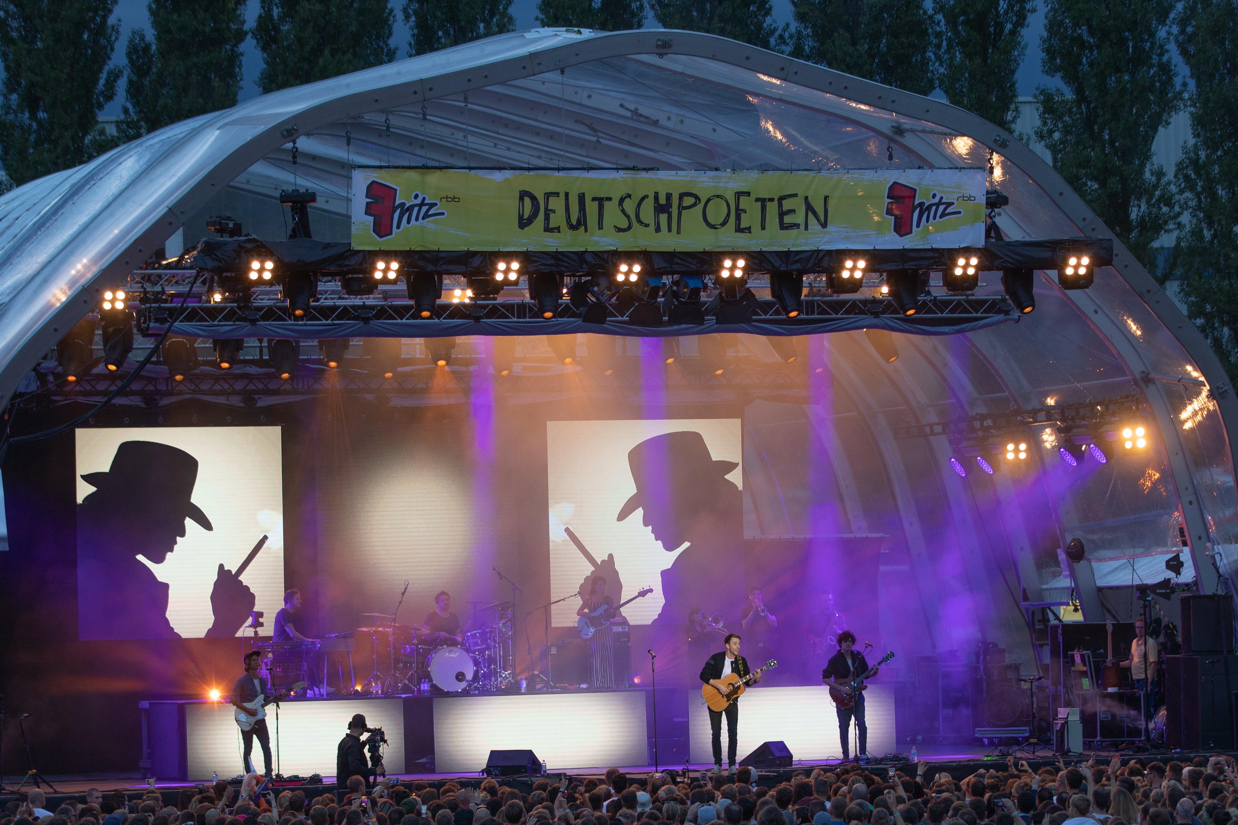 Clueso at Fritz DeutschPoeten 2018